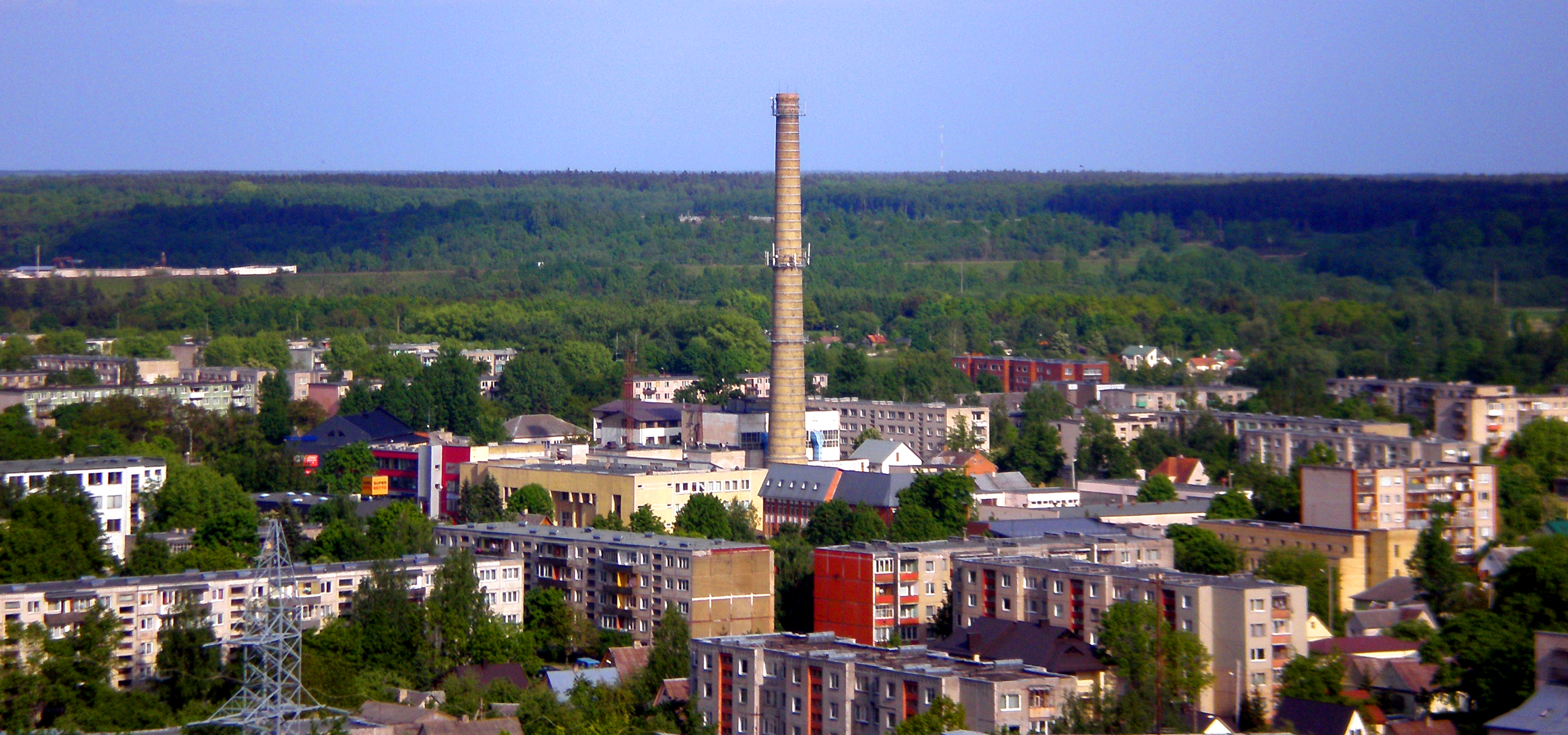 Jonava, Lithuania